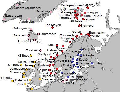 A map of the most important maritime and oceanographic weather stations in Northern Europe. Colour codes: Red = Norwegian. Pink = German, Danish and Icelandic. Yellow = British and Irish. Blue = Swedish and Finnish.